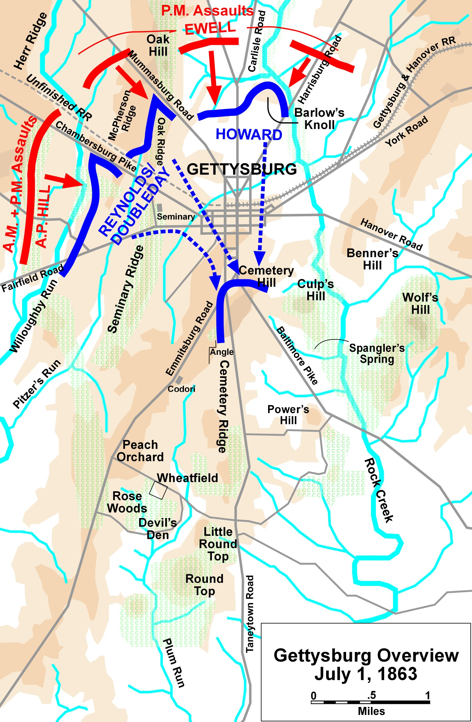 Action on July 1, 1863 at Gettysburg, Pa